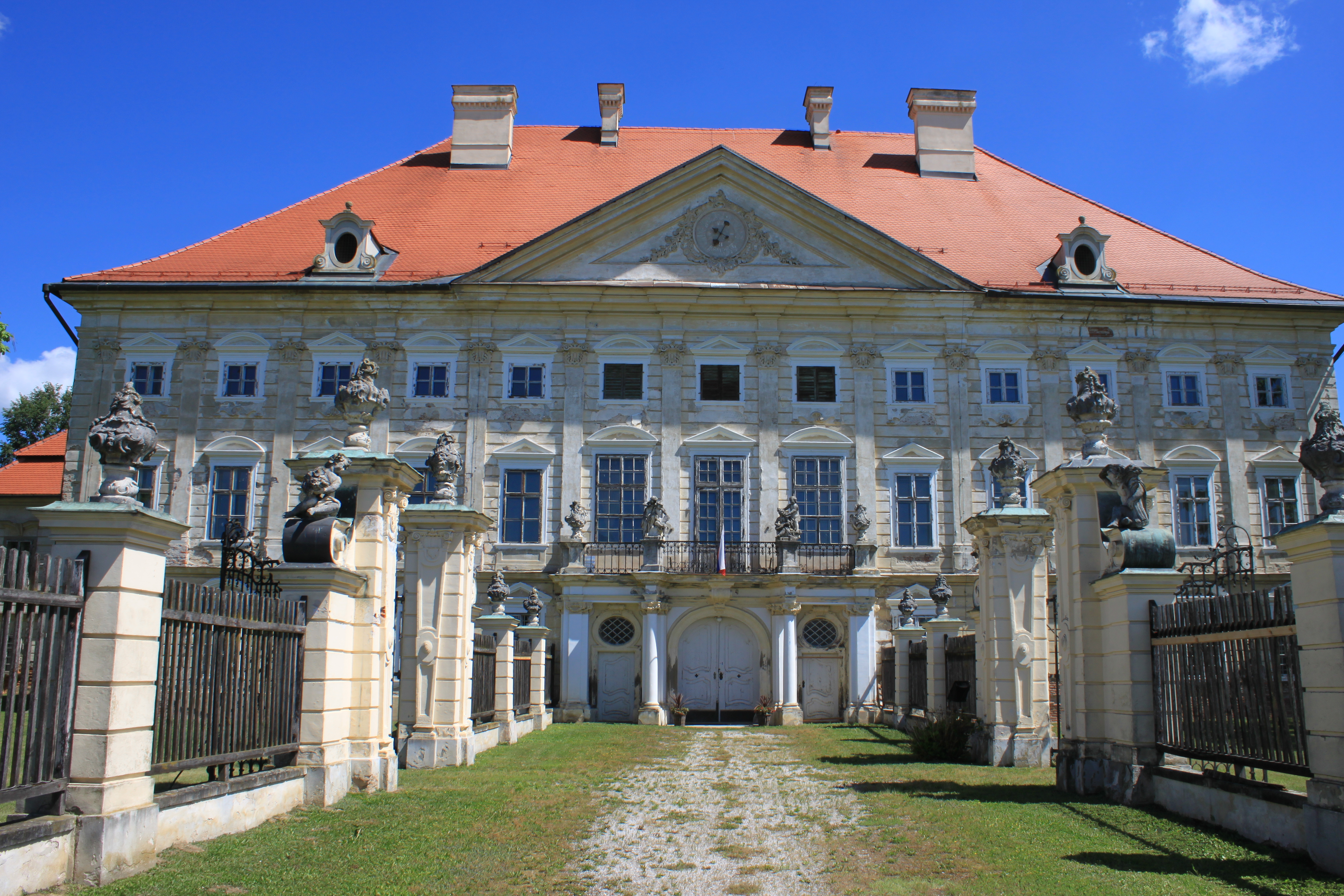 Dornau (Dornava) Mansion; Entrance; 1753.